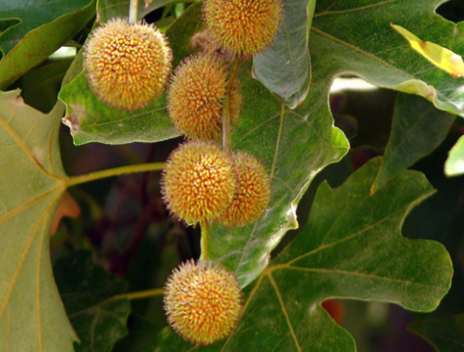 The fruit of the leaven tree